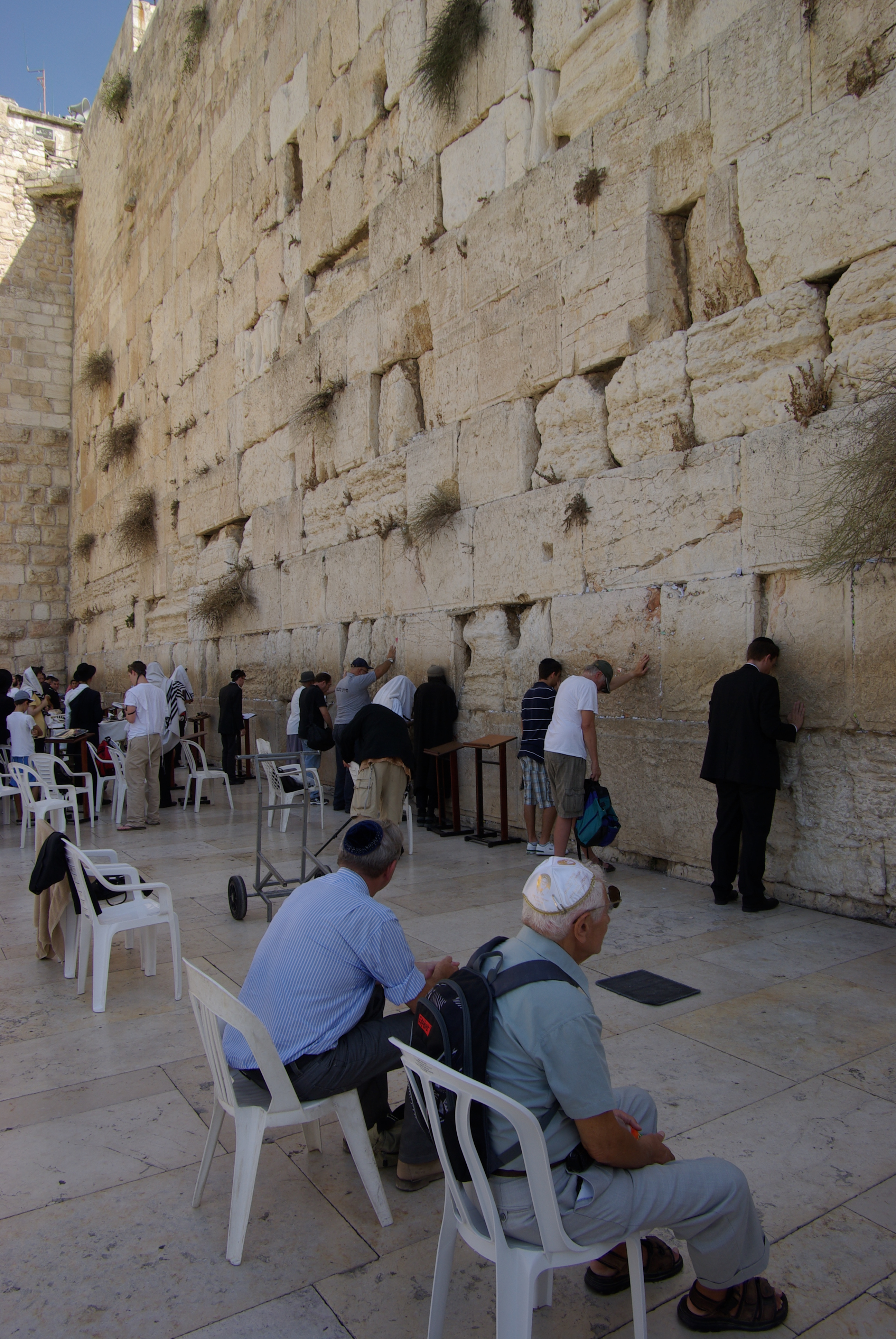 Prayers at the Western Wall in Jerusalem